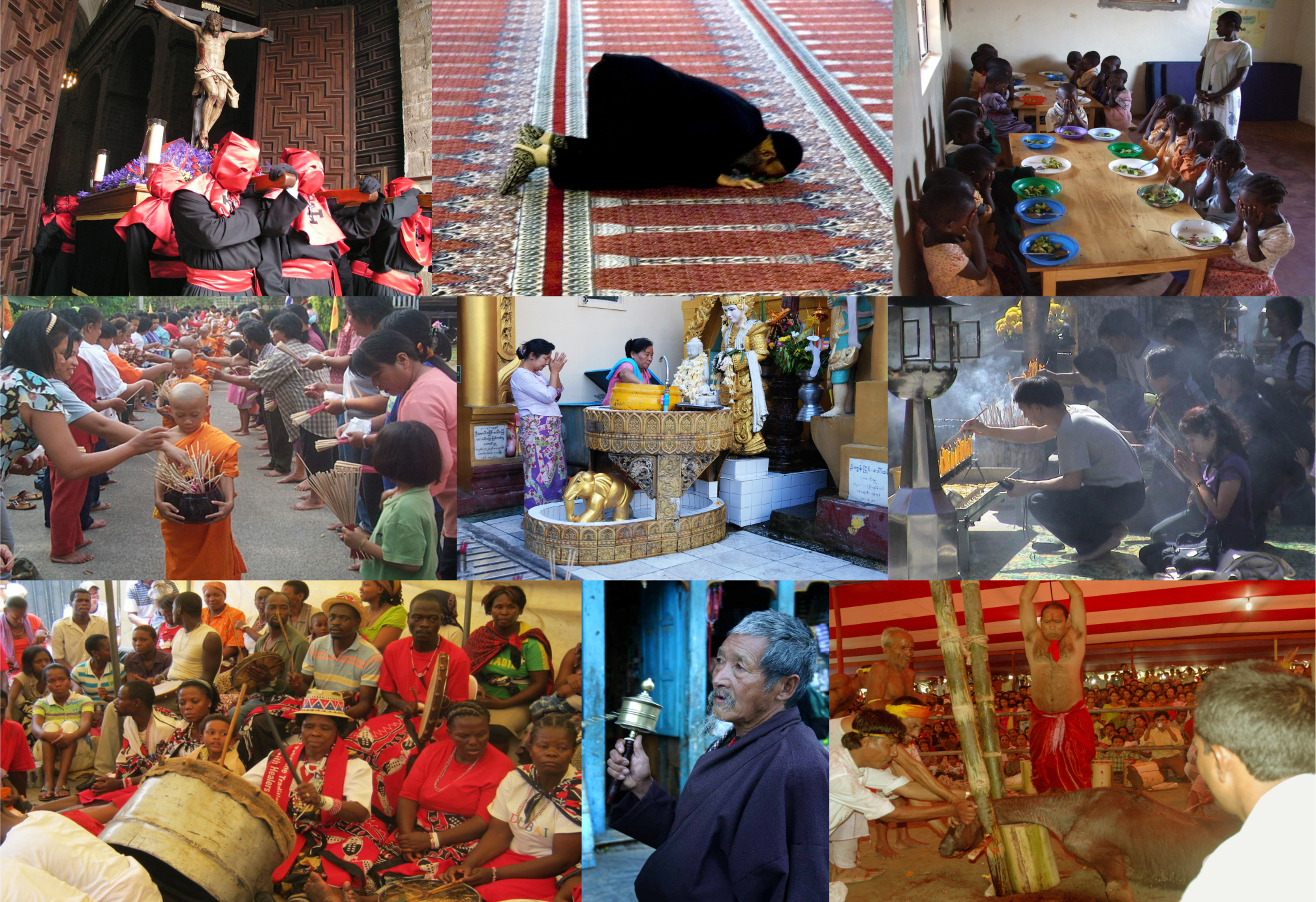 Collage of religious images (based on existing wiki files) - a larger, higher resolution version of File:Religious collage.jpg